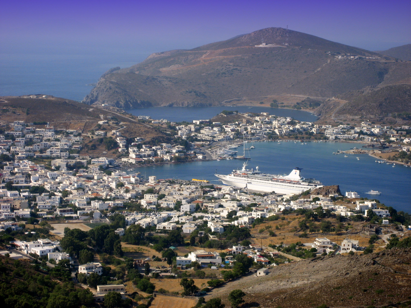 The Port (Skala) of Patmos Island, Greece